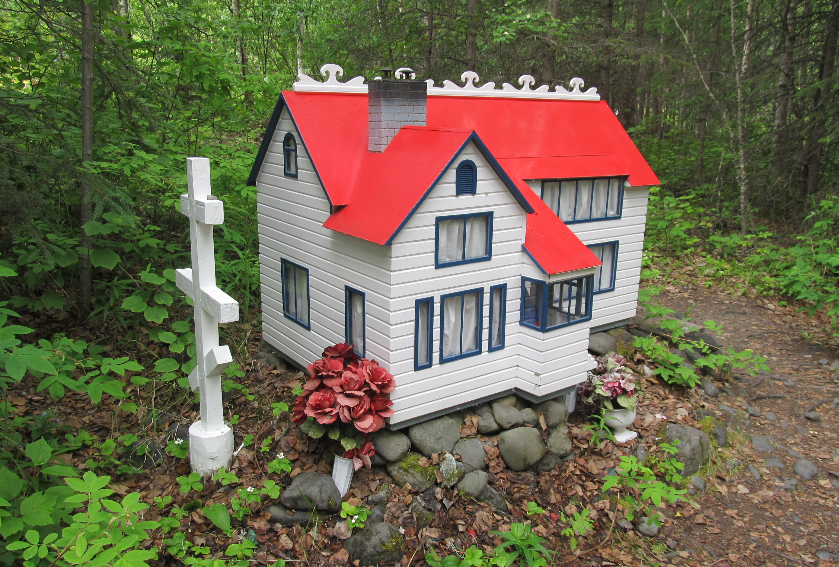 Eklutna Village Cemetery. A modern spirit box.